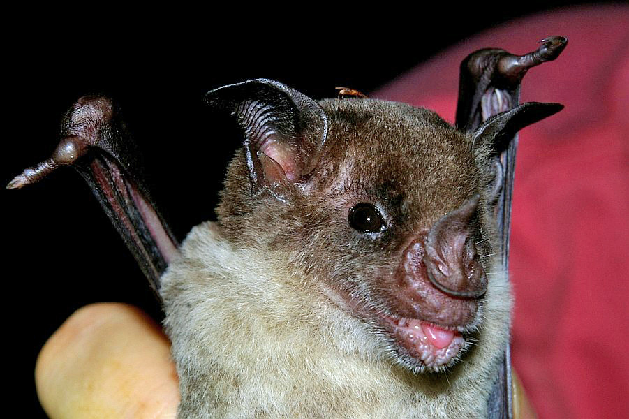 Pale spared-nose bat, Phyllostomus discolor, picture taken in La Selva, Costa Rica